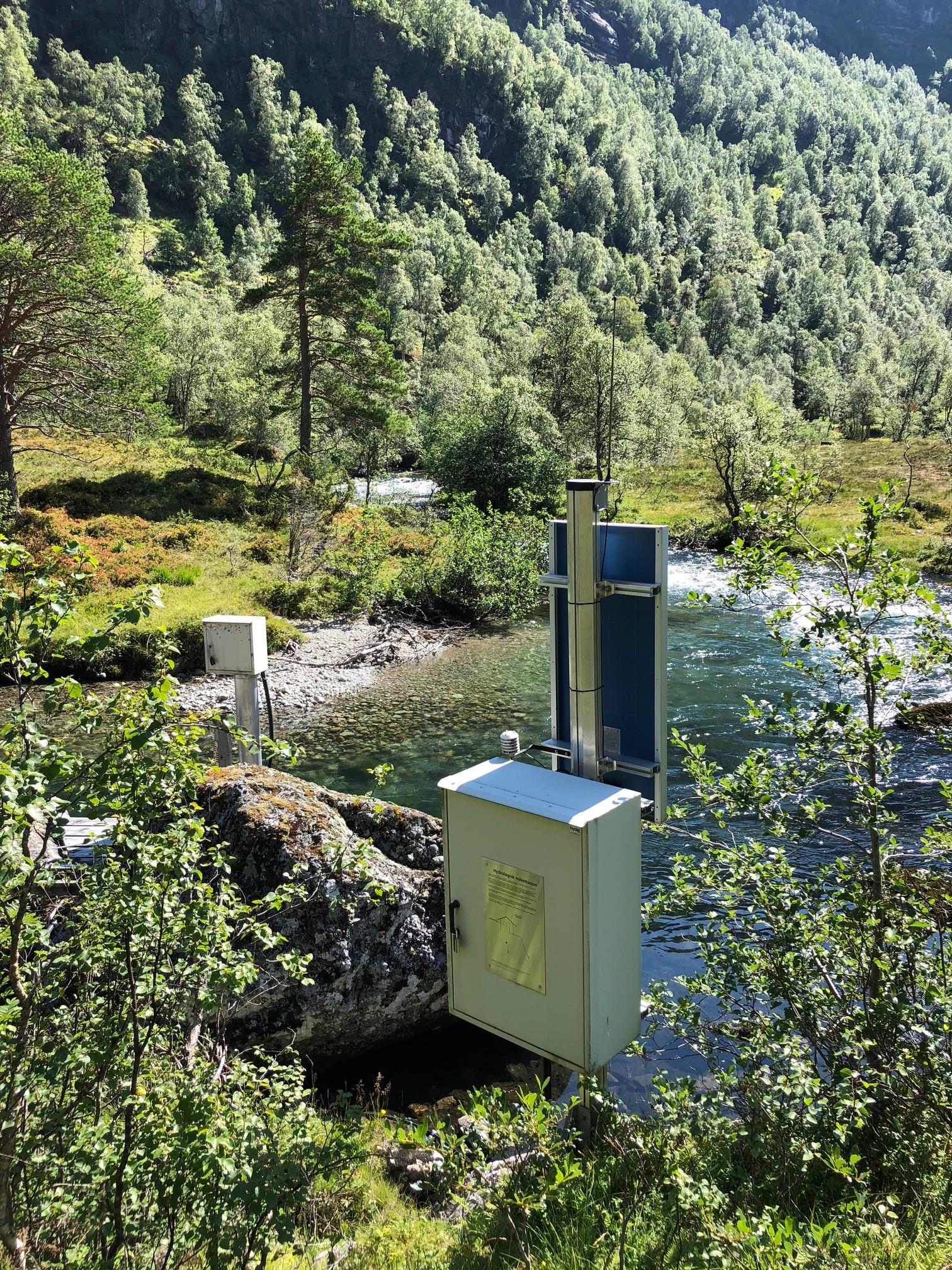 Hydrological measuring station at river Skjerdalselva in Gloppen, Norway